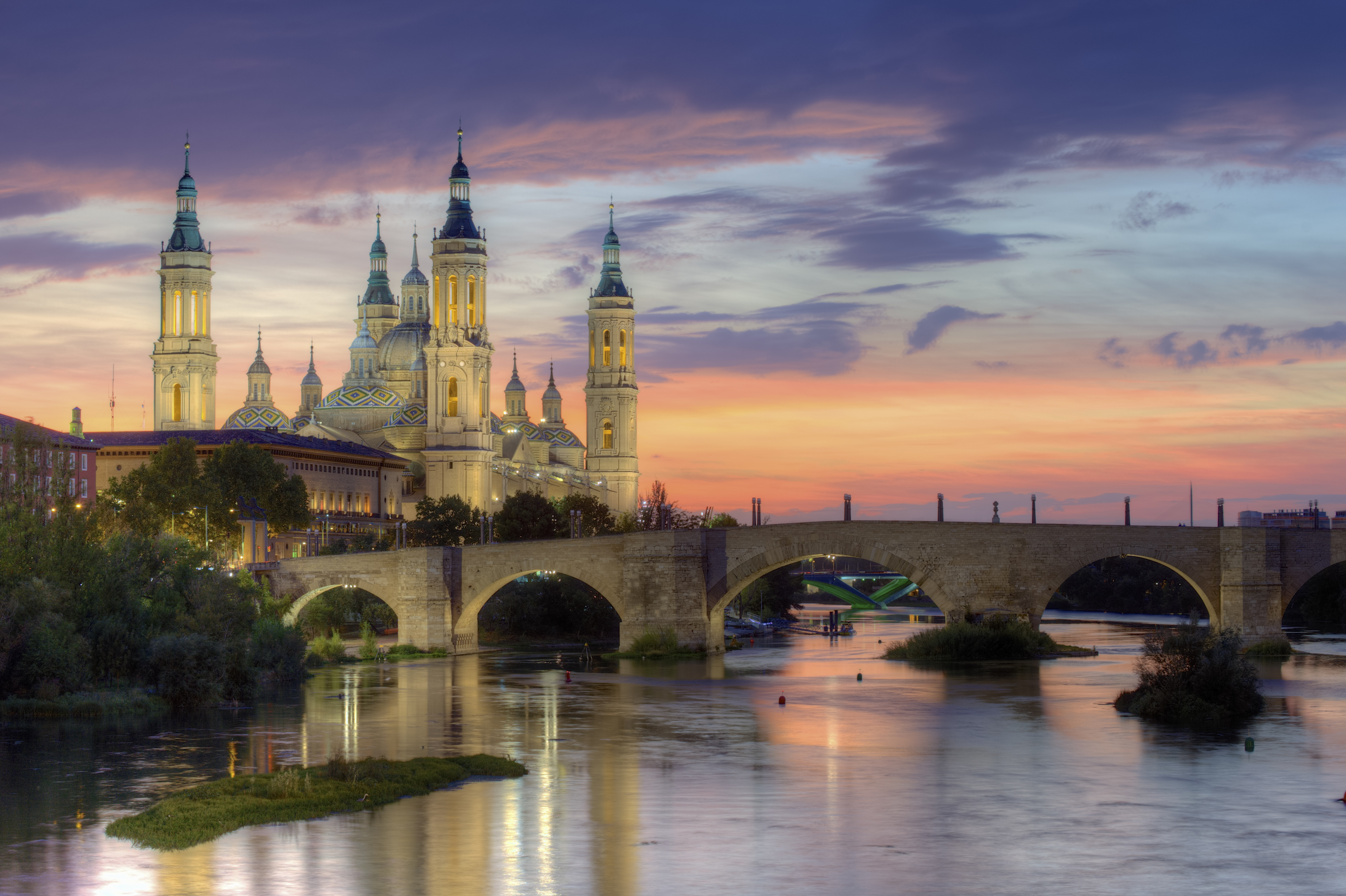 Basilica of Our Lady of the Pillar, Zaragoza, Aragon, Spain.